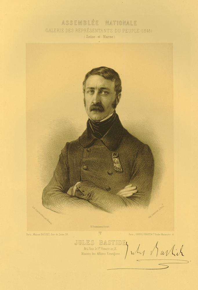 Portrait of French statesman Jules Bastide, half-length, looking to front, arms folded, a decoration pinned on his double-breasted coat. 1848 Lithograph on chine collé